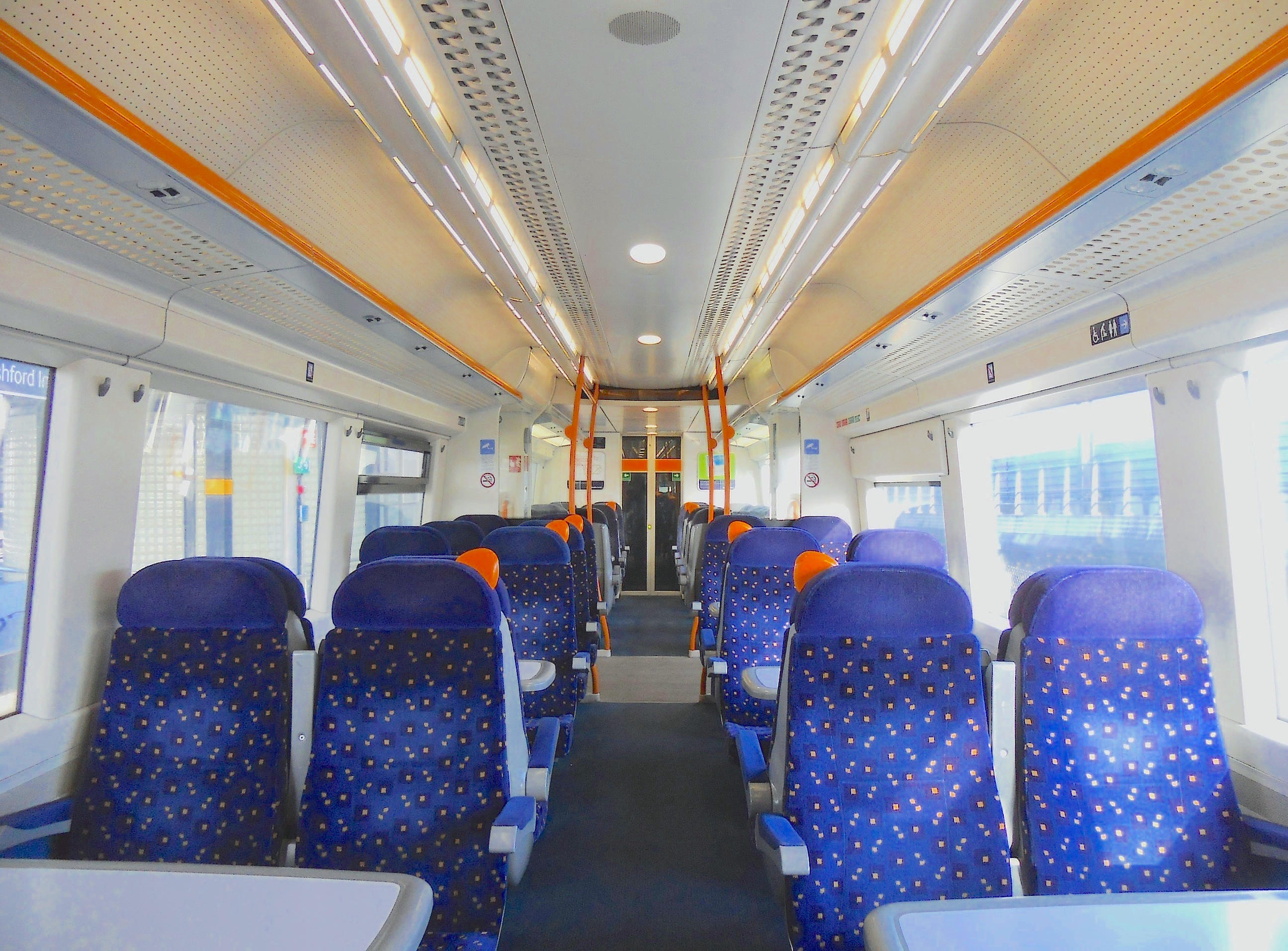 The interior of Standard Class accommodation from a Southeastern trains Class 375